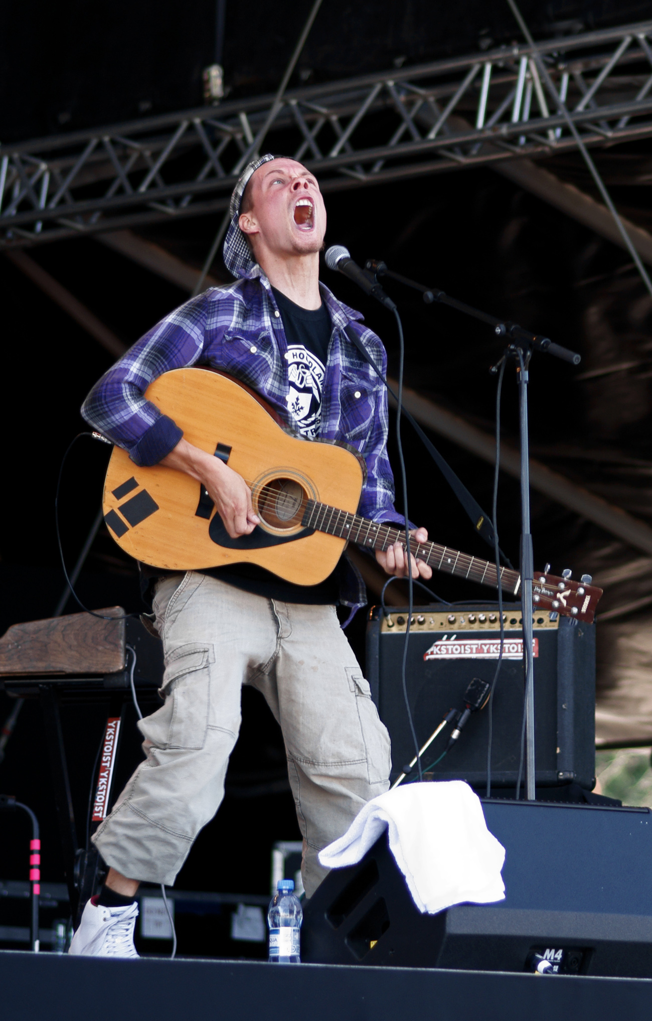 Puppa J performing with Jätkäjätkät in Pori Jazz 2010.